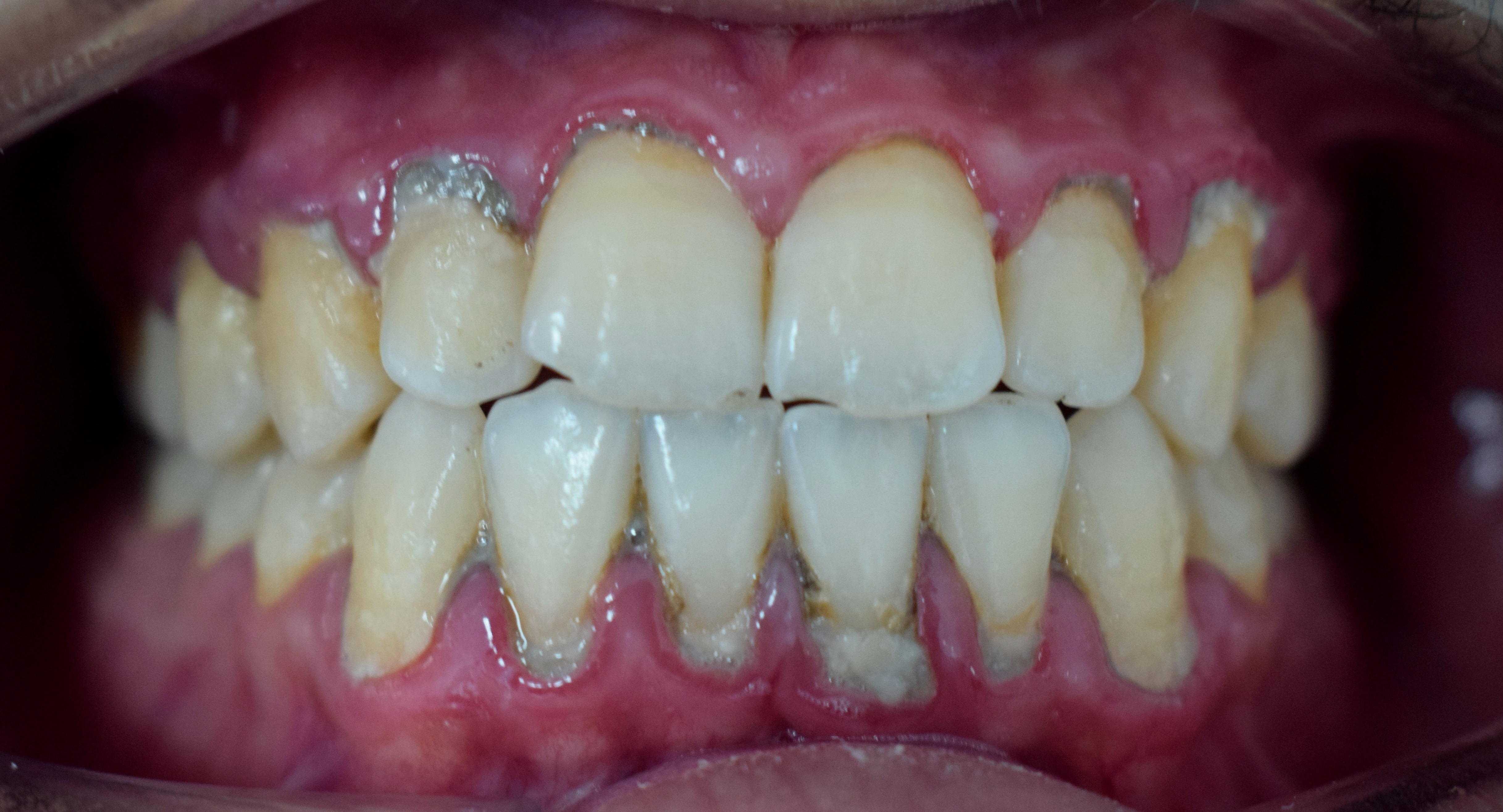 Retentive surface of calculus allows for further plaque accumulation. La plaque dentaire se depose à la surface du tartre dentaire تراكم جير فوق جير متكلس